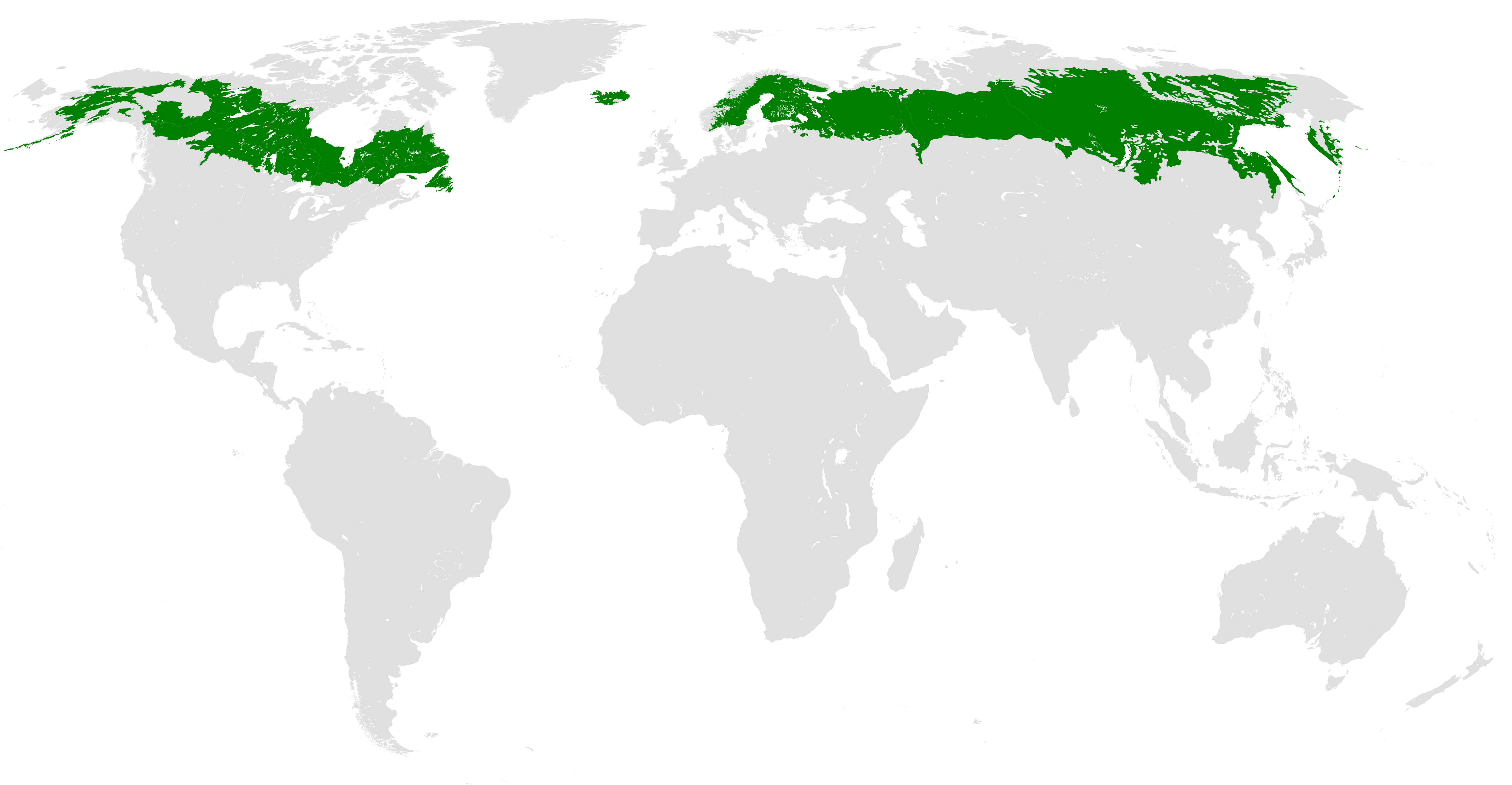 Global distribution of the Taiga and Boreal forest biome, and its ecoregions. The biome data used for this map and a full citation can be found at Terrestrial Ecoregions of the World.